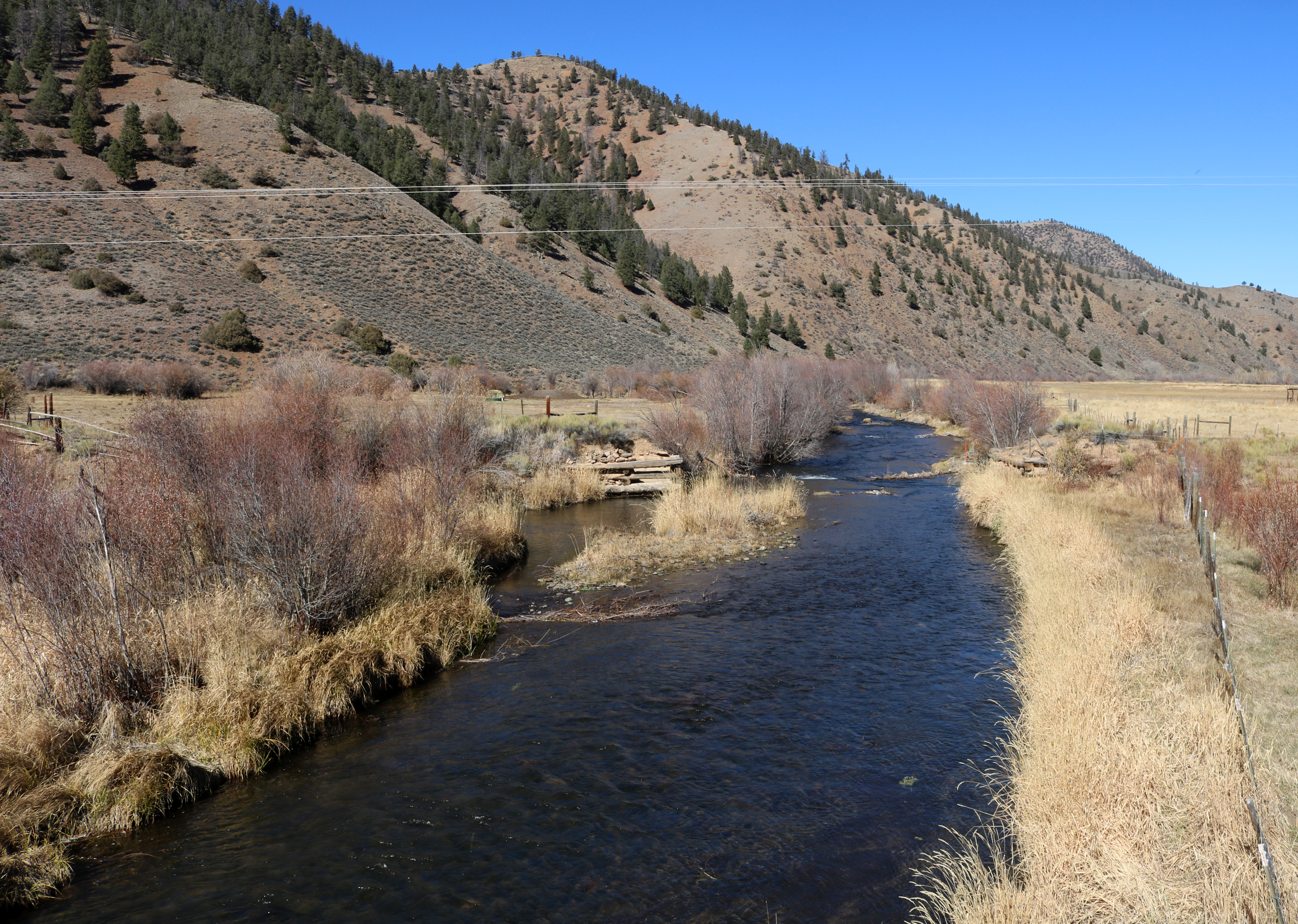 Cebolla Creek in Powderhorn, Colorado in Gunnison County. The view is looking northwest from a bridge on Colorado State Highway 149, in the Milkranch Gulch area. The picture actually shows part of the confluence of Powerderhorn Creek, which is on the left side of the picture as it merges with Cebolla Creek, on the right.